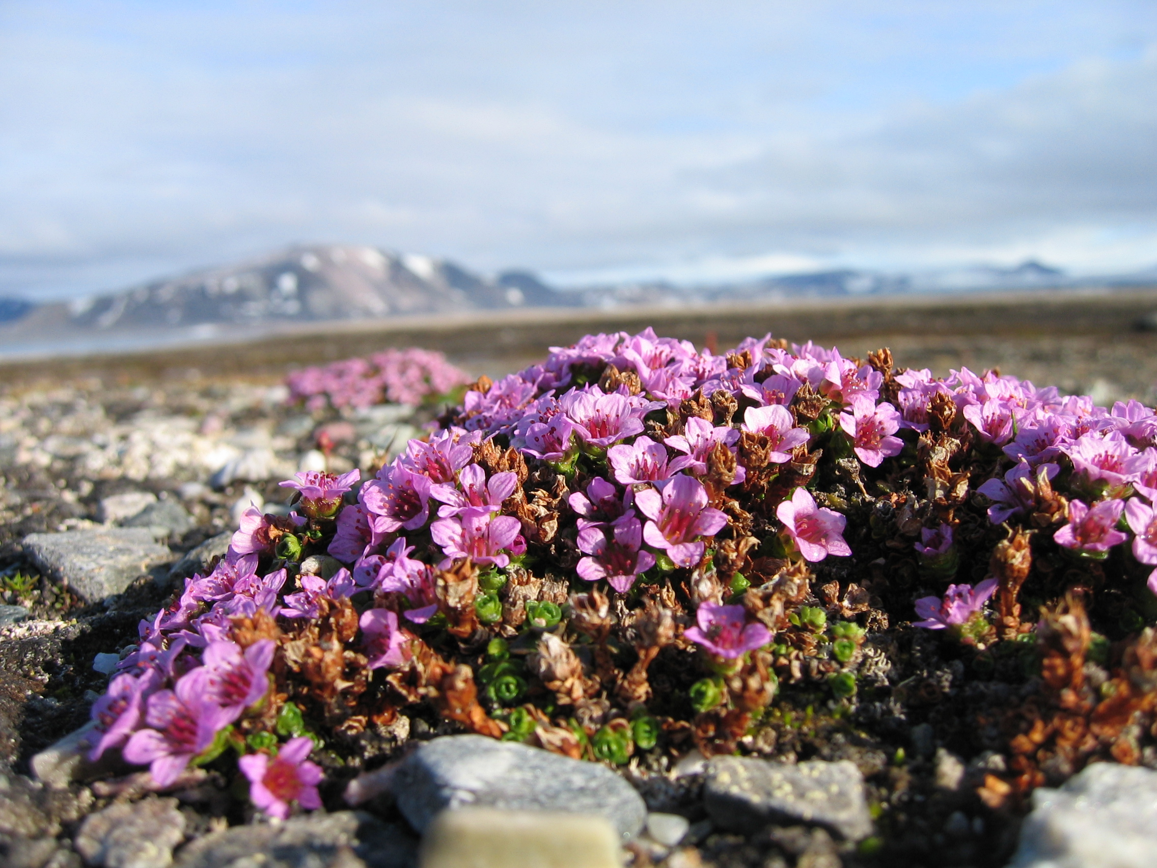 Saxifraga oppositifolia.Arctic flowers have to be hardy and grow in tight little clumps.